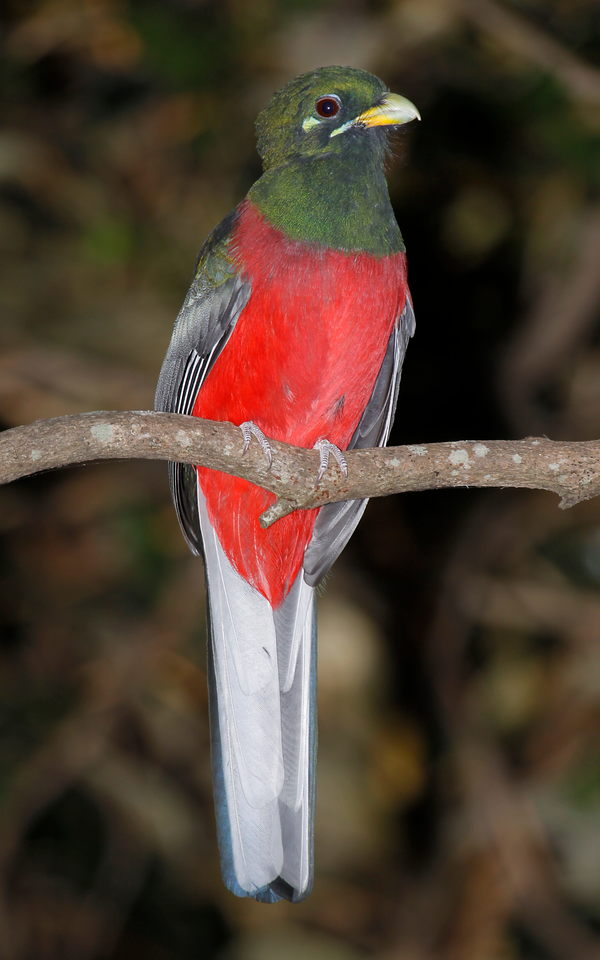 Narina Trogon, Apaloderma narina MALE at Lekgalameetse Provincial Reserve, Limpopo, South Africa